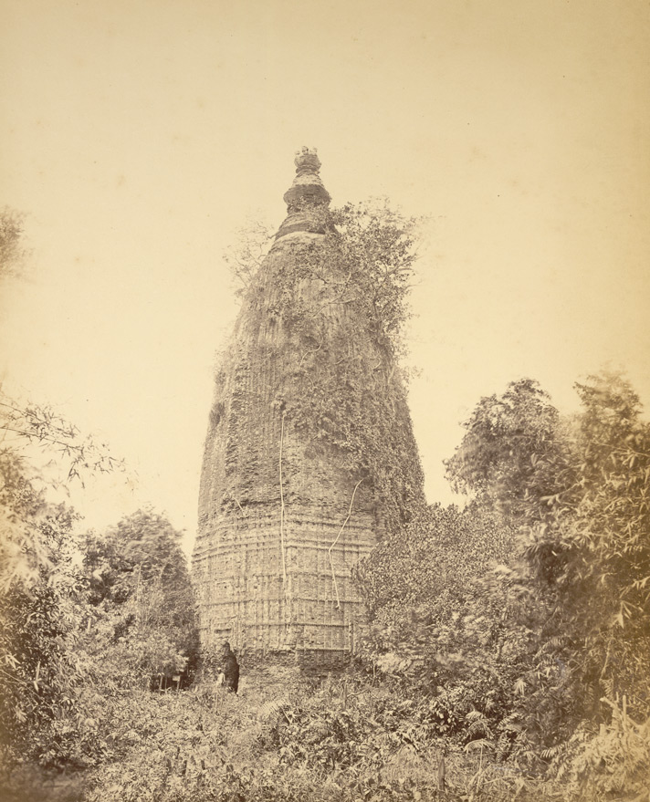 Mathurapur temple,in Madhukahli, Faridpur district of Bangladesh